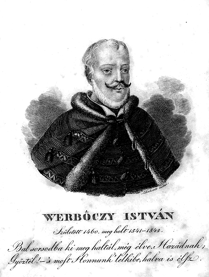 Portrait from the 19th century